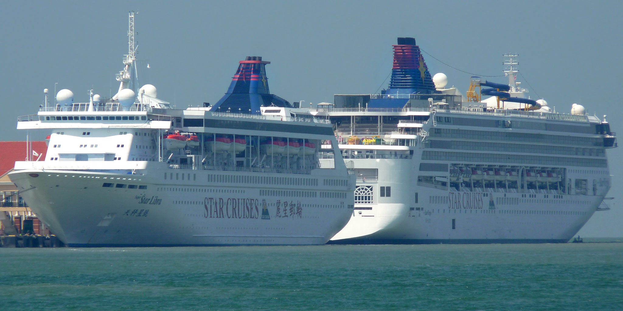 Star Libra and SuperStar Virgo docked in Penang, Malaysia in Feb 2011.